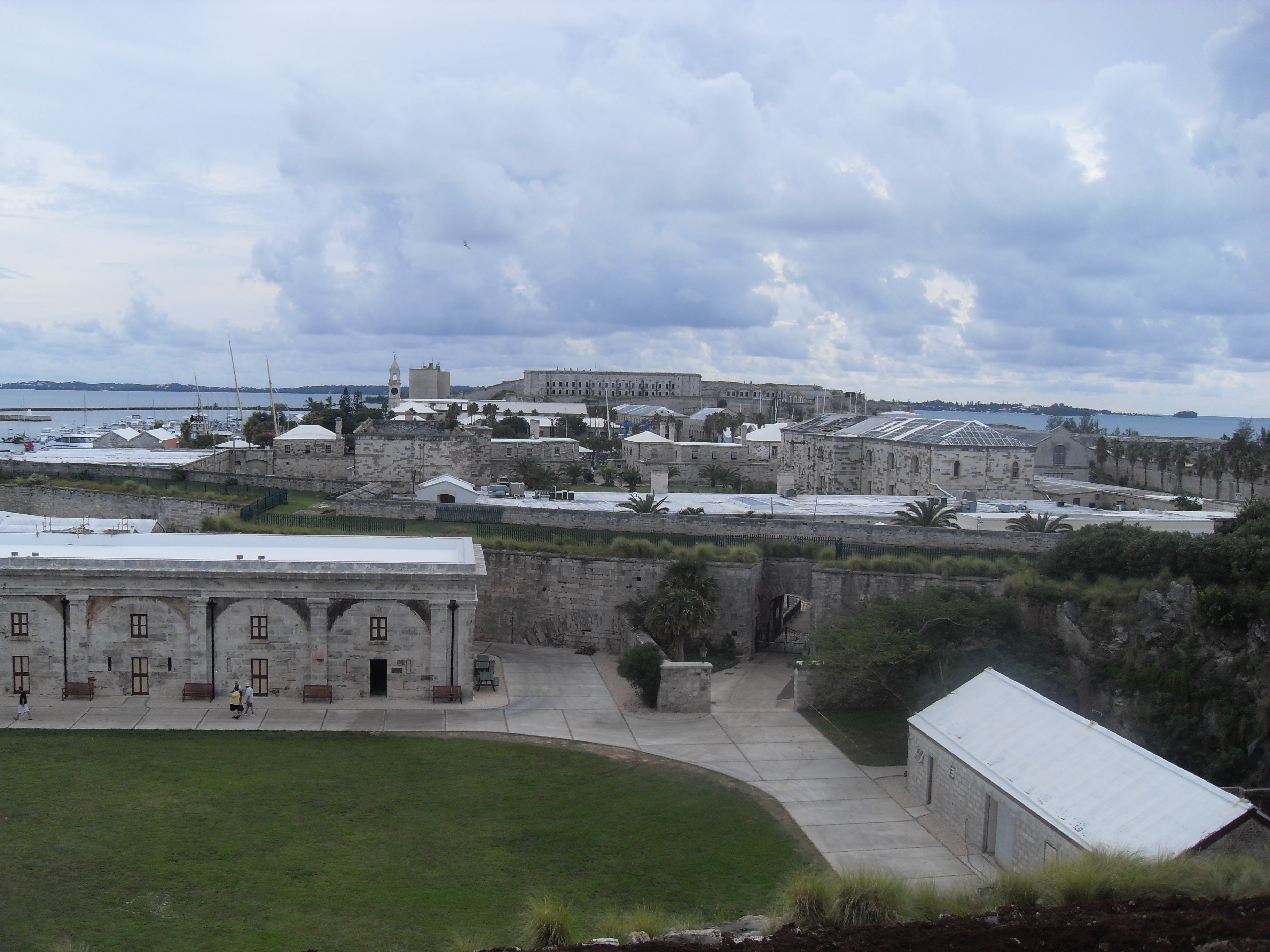 View from the Commissioner's House over the Parade Grounds of the fortress Keep towards its entry, now the entry of the Bermuda Maritime Museum.